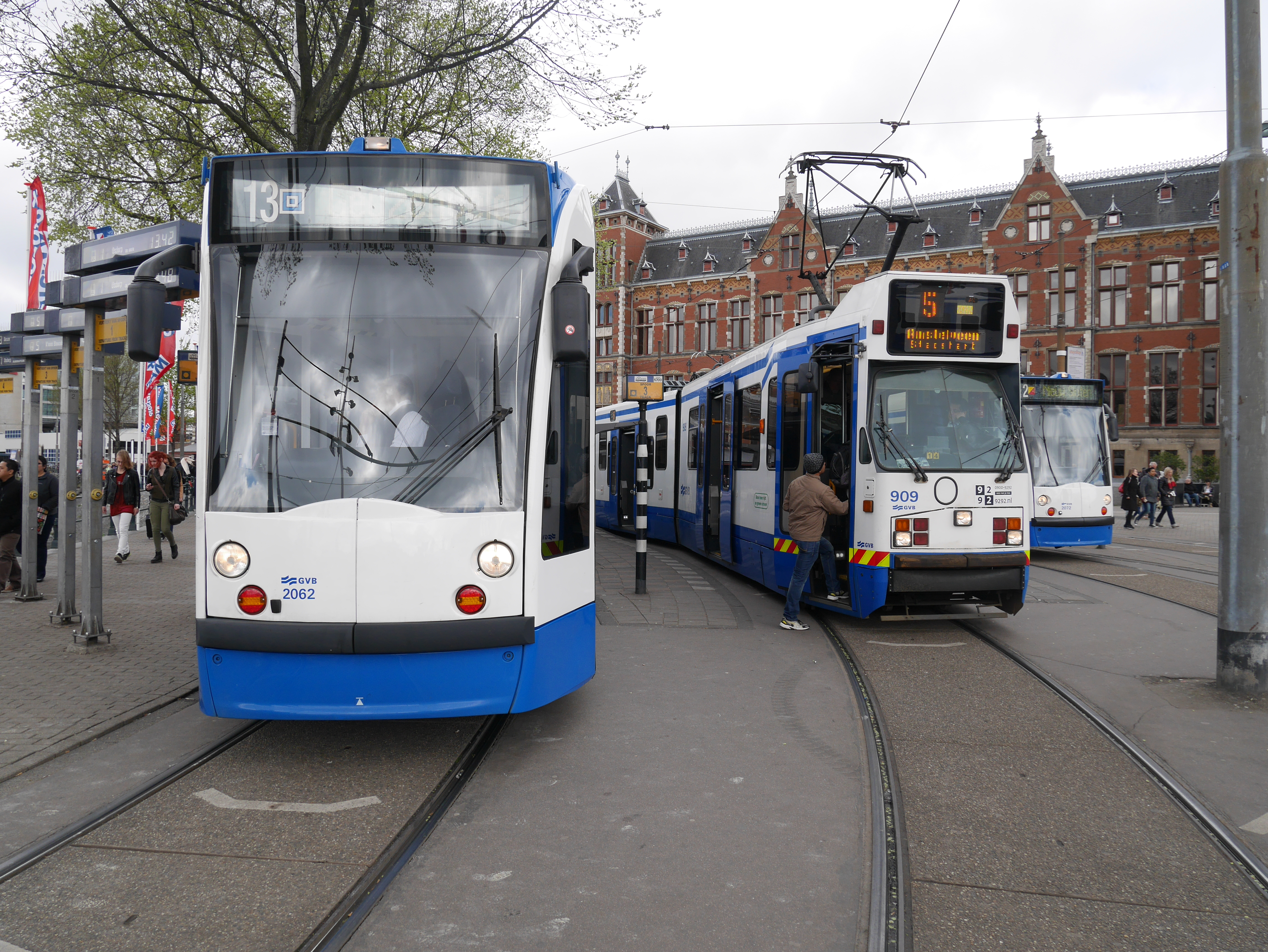 Two trams at Amsterdam central station.